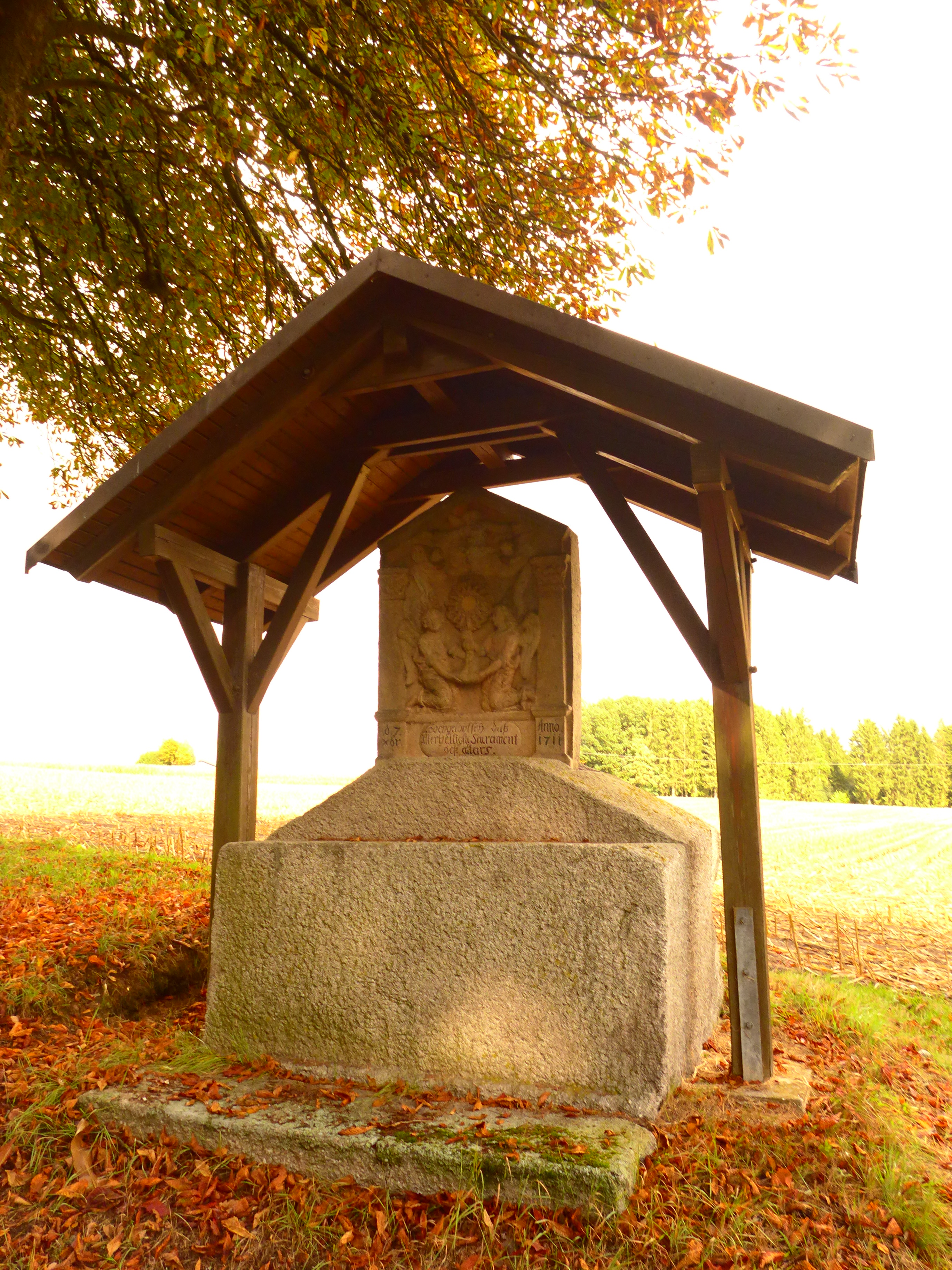 Stone altar at street from Beidl to Schönficht, Upper Panatinate, Bavaria, Germany, cultural heritage monument D-3-77-146-13